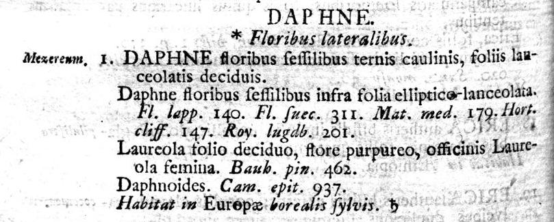 Daphne mezereum at Species Plantarum 1: 356. 1753